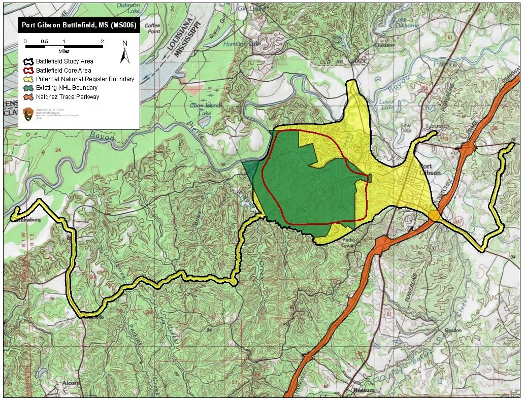 Map of battlefield core and study areas. The ABPP expanded the Study Area to include the route of Federal advance from their landing at Bruinsburg and the Confederate retreat routes across Bayou Pierre where Federal pursuit ended. The Bruinsburg route is included for its significance as the opening movement of the campaign on the Mississippi side of the river, and because additional Federal troops arrived by this route throughout the day. The Study Area was also enlarged to include the historic boundaries of the Buck Creek and Bayou Pierre waterways – obstacles that dictated troop movements during the battle. The ABPP expanded the Core Area in the north to include the Confederate lines and sweeping Federal assault and in the south to include the location of fighting around Magnolia Church.